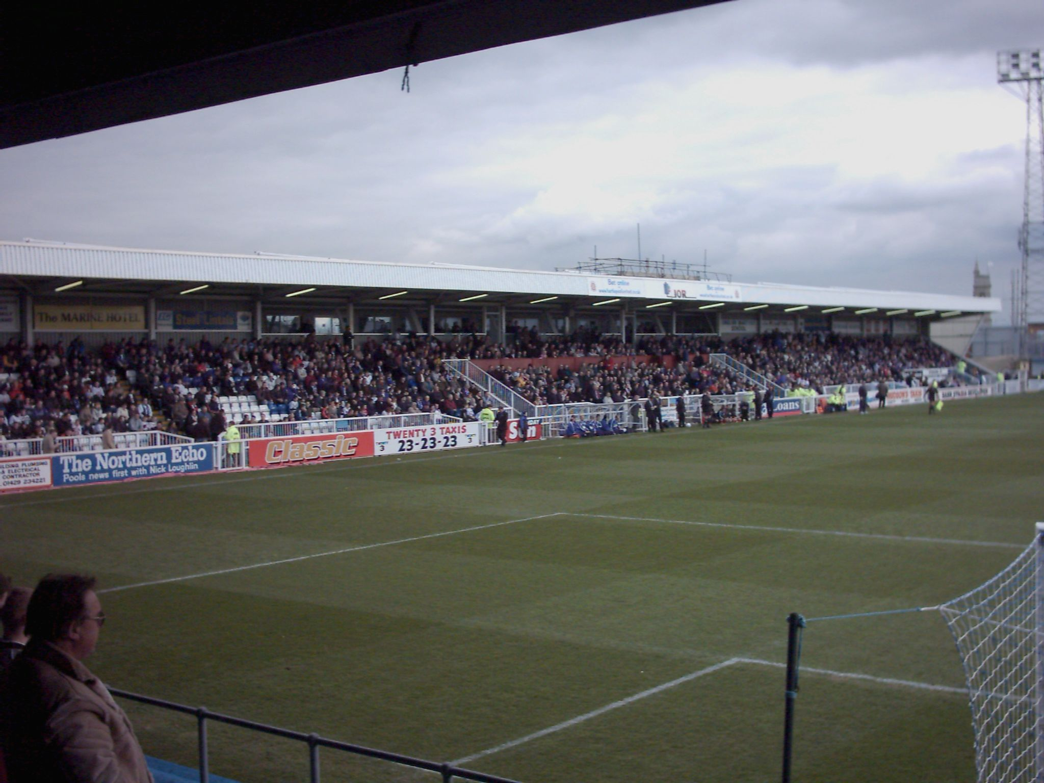 Taken by SuperBFC on 2004-03-27 with TCM 3.2 MPix Camera. Imaged enhanced in Irfanview.